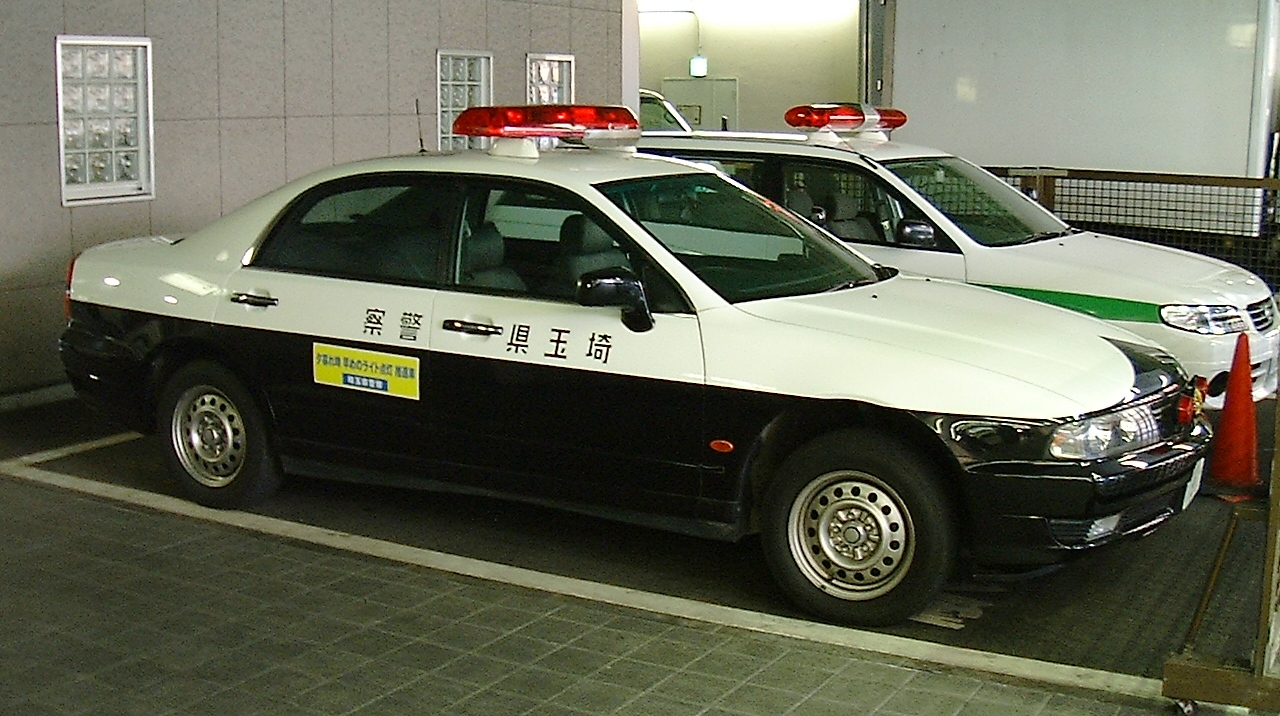 Mitsubishi Diamante Police car.